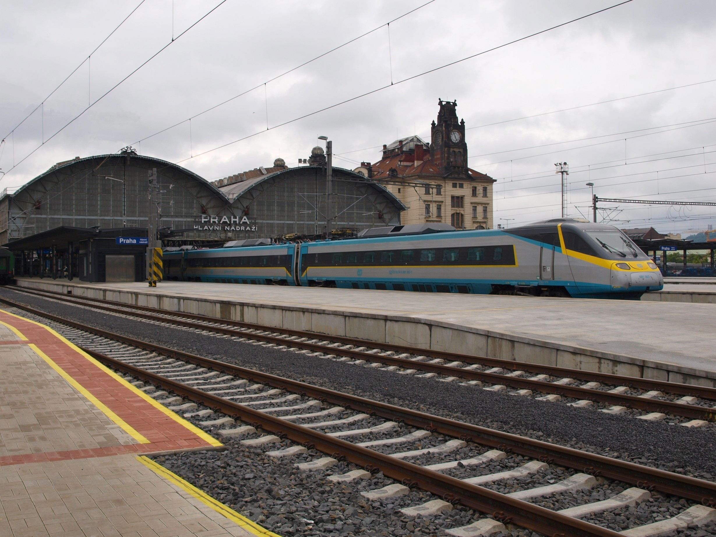 Electric multiple unit 680 Pendolio at Prague main station